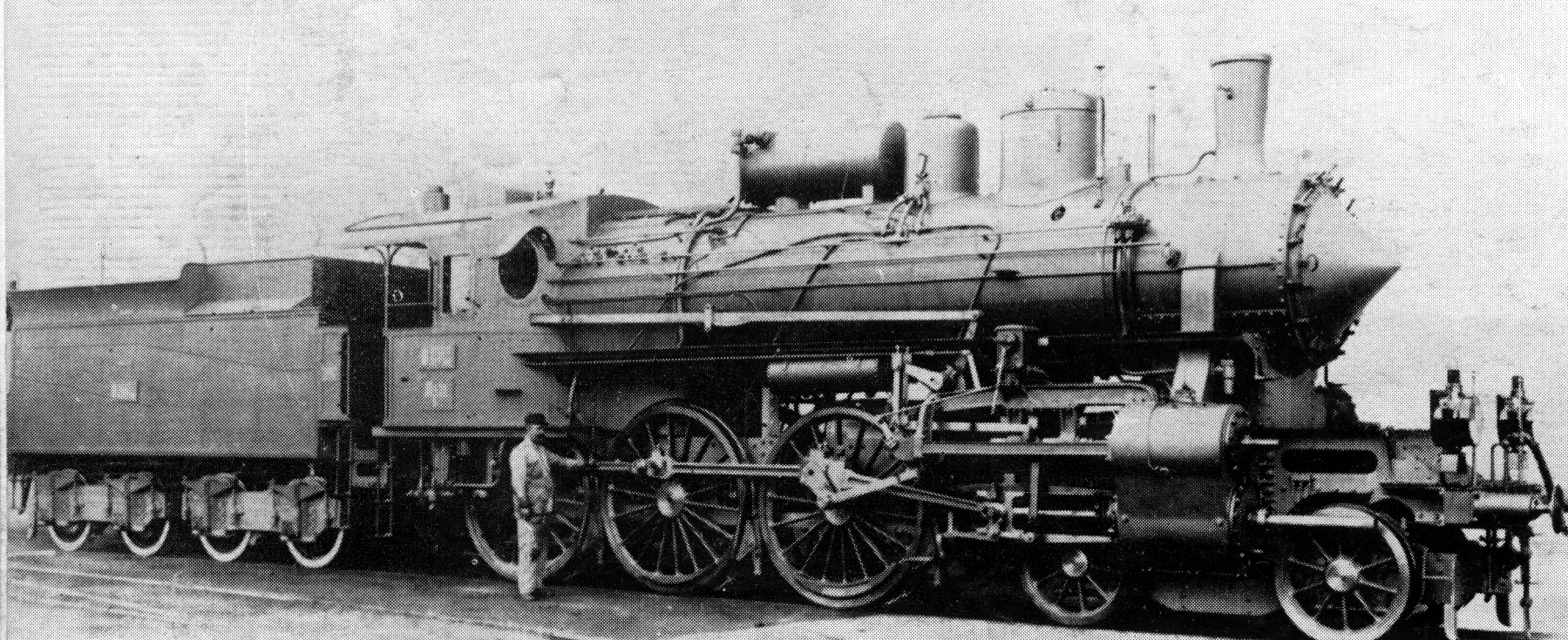 Compound version of MAV steam loco Class 327